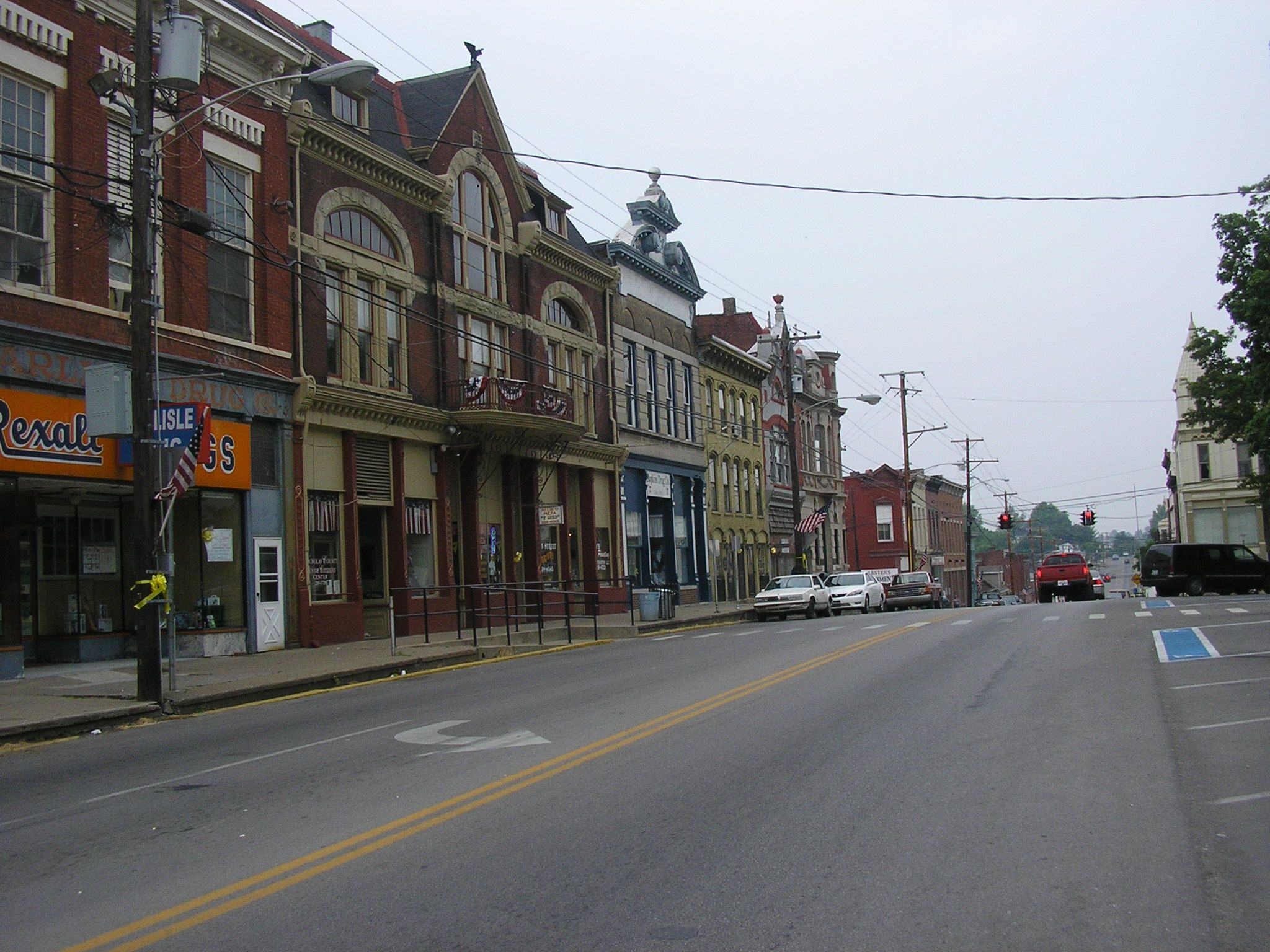 Downtown Carlisle, Kentucky